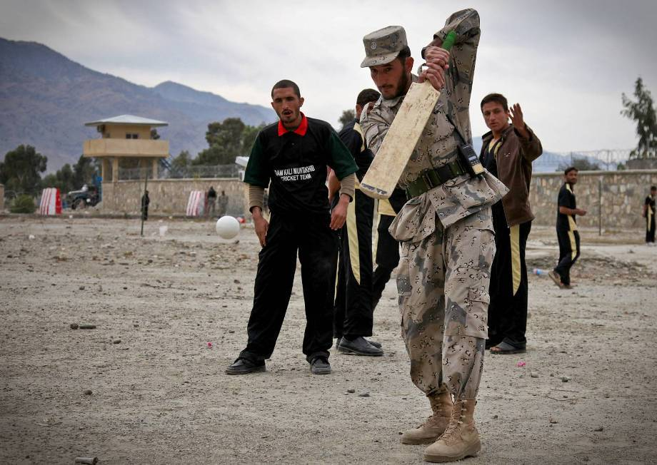 An Afghan Border Patrol soldier plays cricket after the ground breaking ceremony for the Ghulam Mohammad Sports Complex in the Sarkani District of Kunar Province, Afghanistan on Dec. 12, 2009. (U.S. Army photo by Sgt. Teddy Wade/Released)